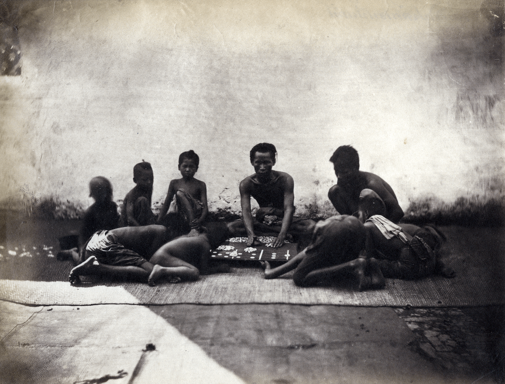 Siamese street gambling